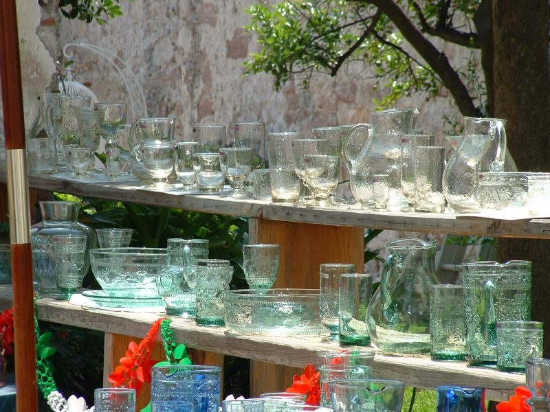 Handicrafts found at the historic center in Santiago de Querétaro, picture taken by me.